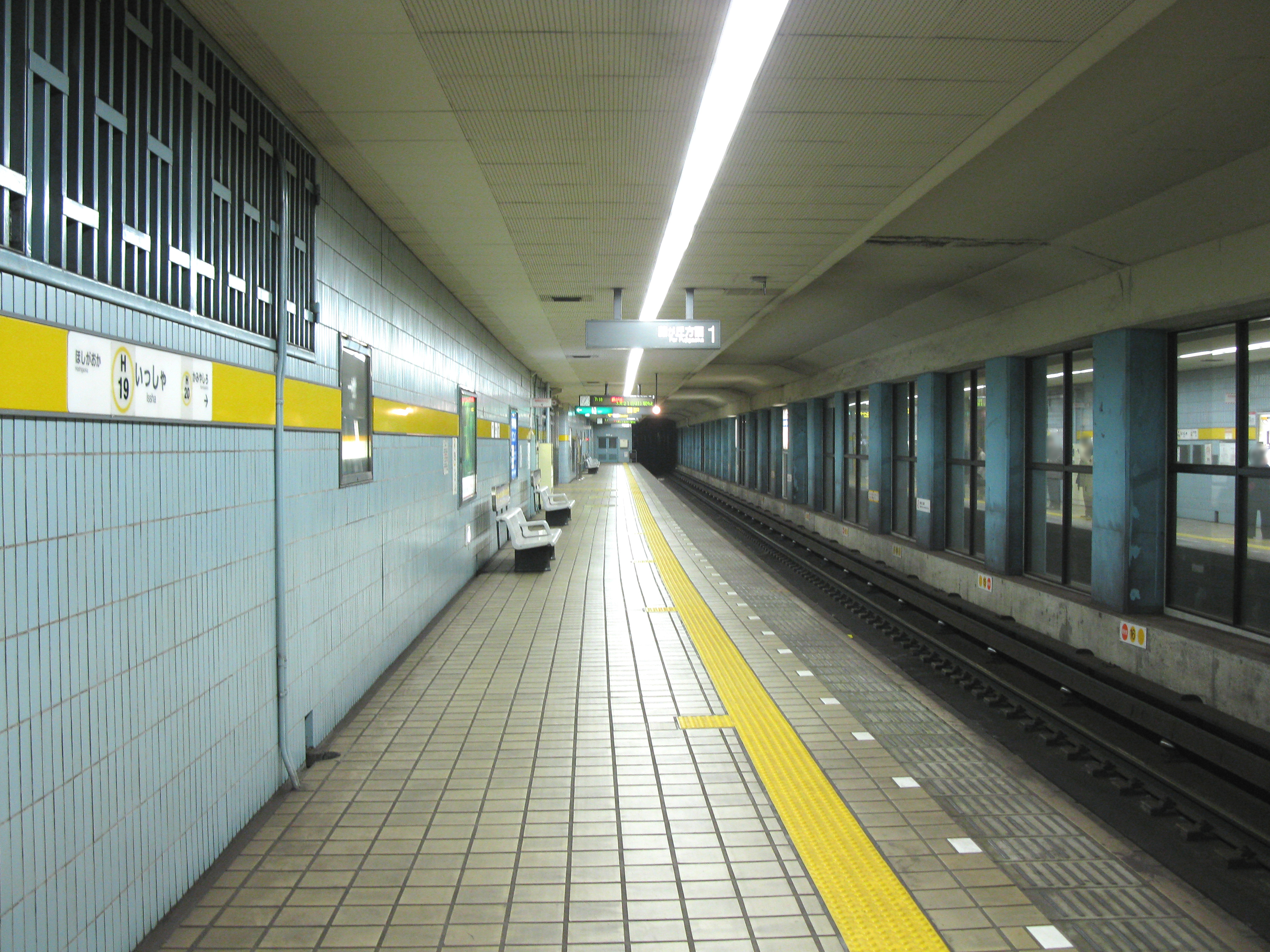 Issha Station platform (Nagoya Municipal Subway Higashiyama Line)